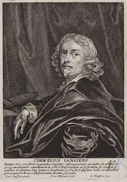 Portrait of Cornelis Janssens in Cornelis de Bie's Gulden Cabinet.